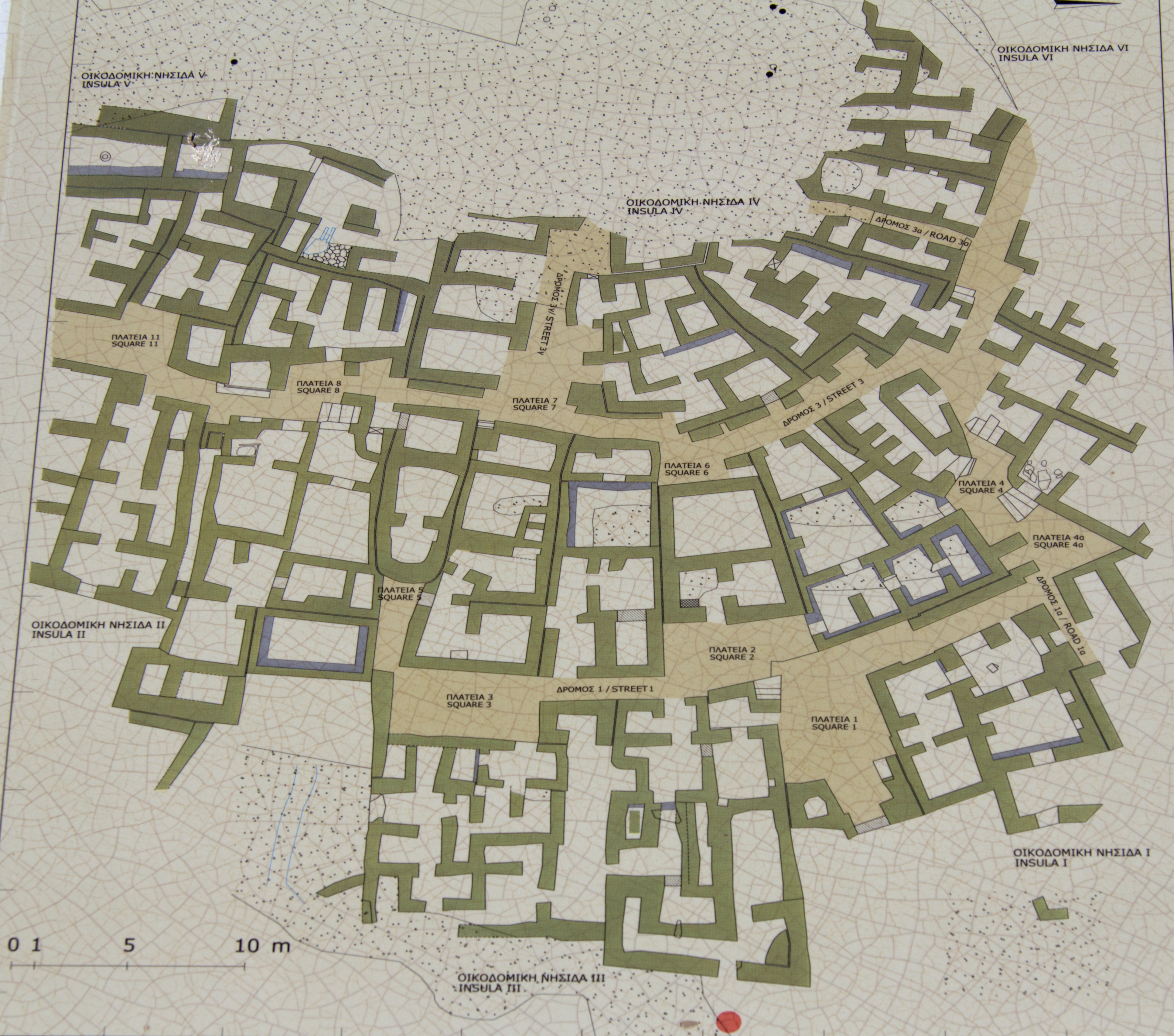 Map of the Skarkos area on the island Ios.